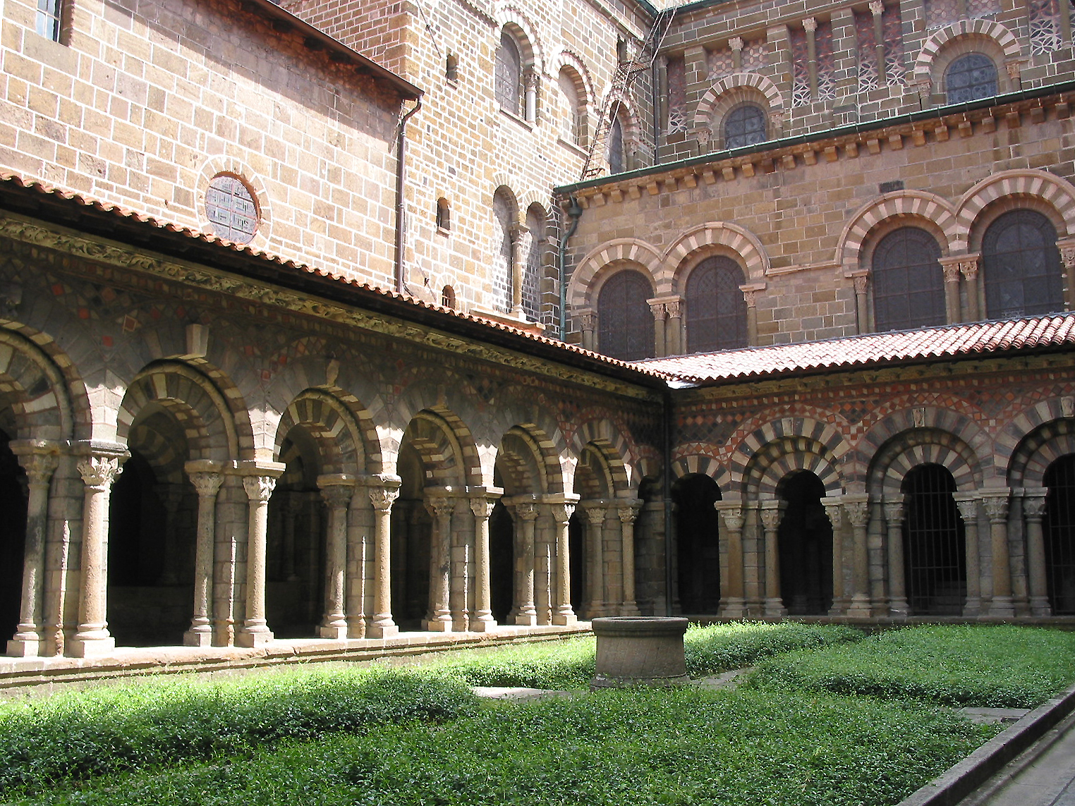 Le Puy-en-Velay (Haute-Loire - France), cloister of the Notre-Dame du Puy cathedral (XIIth century).